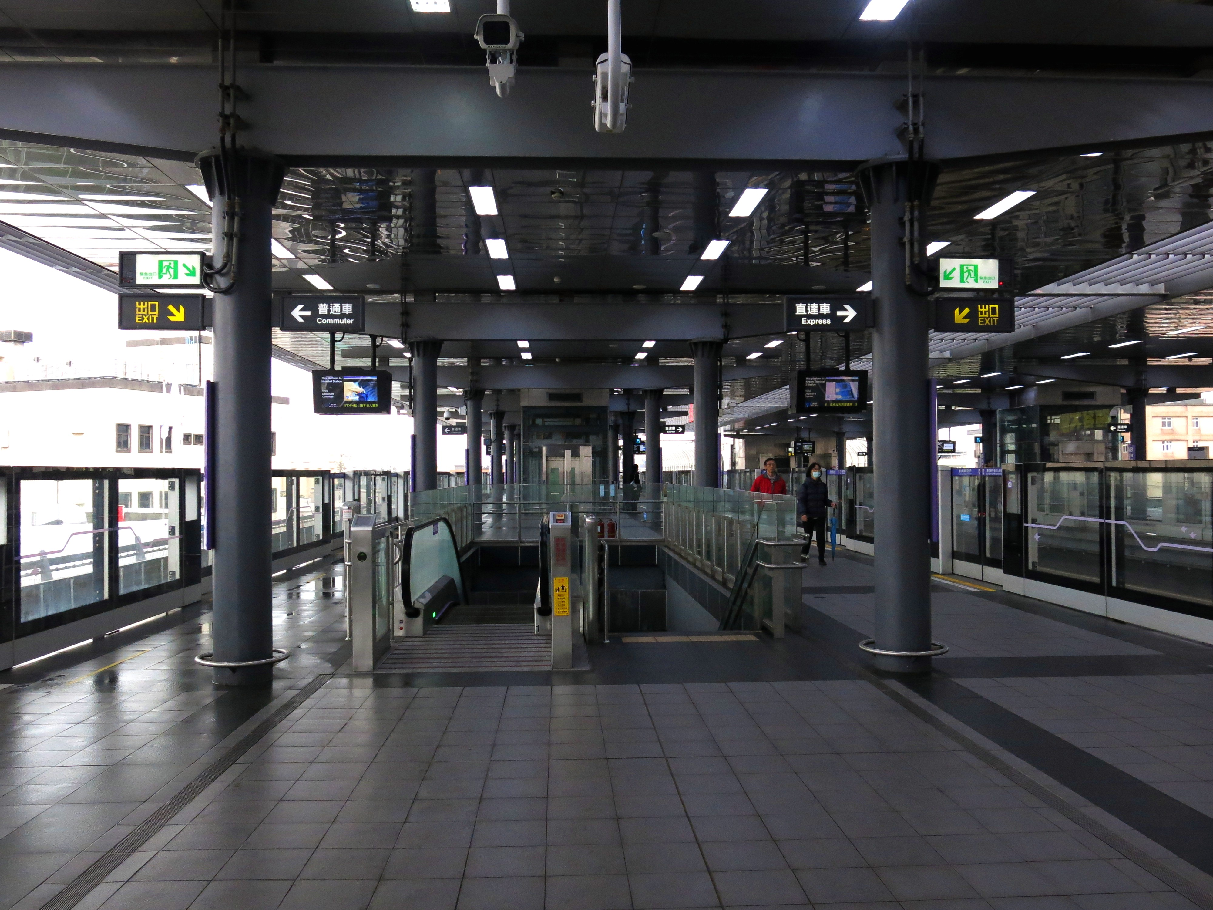 Taoyuan Metro A8 Chang Gung Memorial Hospital Station Platform 中文（中国大陆）: 桃园捷运机场线A8长庚医院站站台